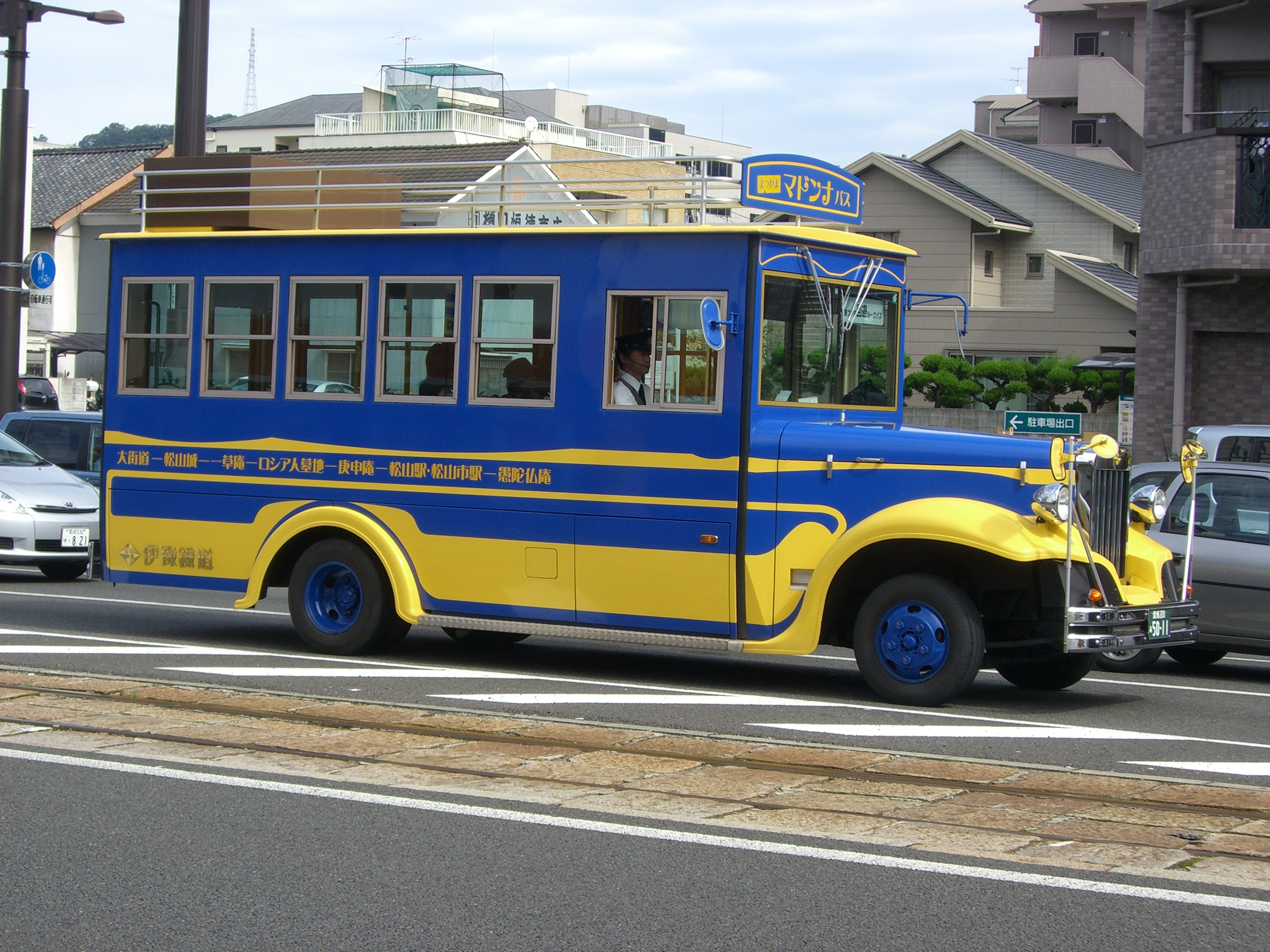 “Madonna Bus” (Reservations are required)： This sightseeing bus is a classic and very fashionable blue and yellow bonnet bus. (Ehime,JAPAN)